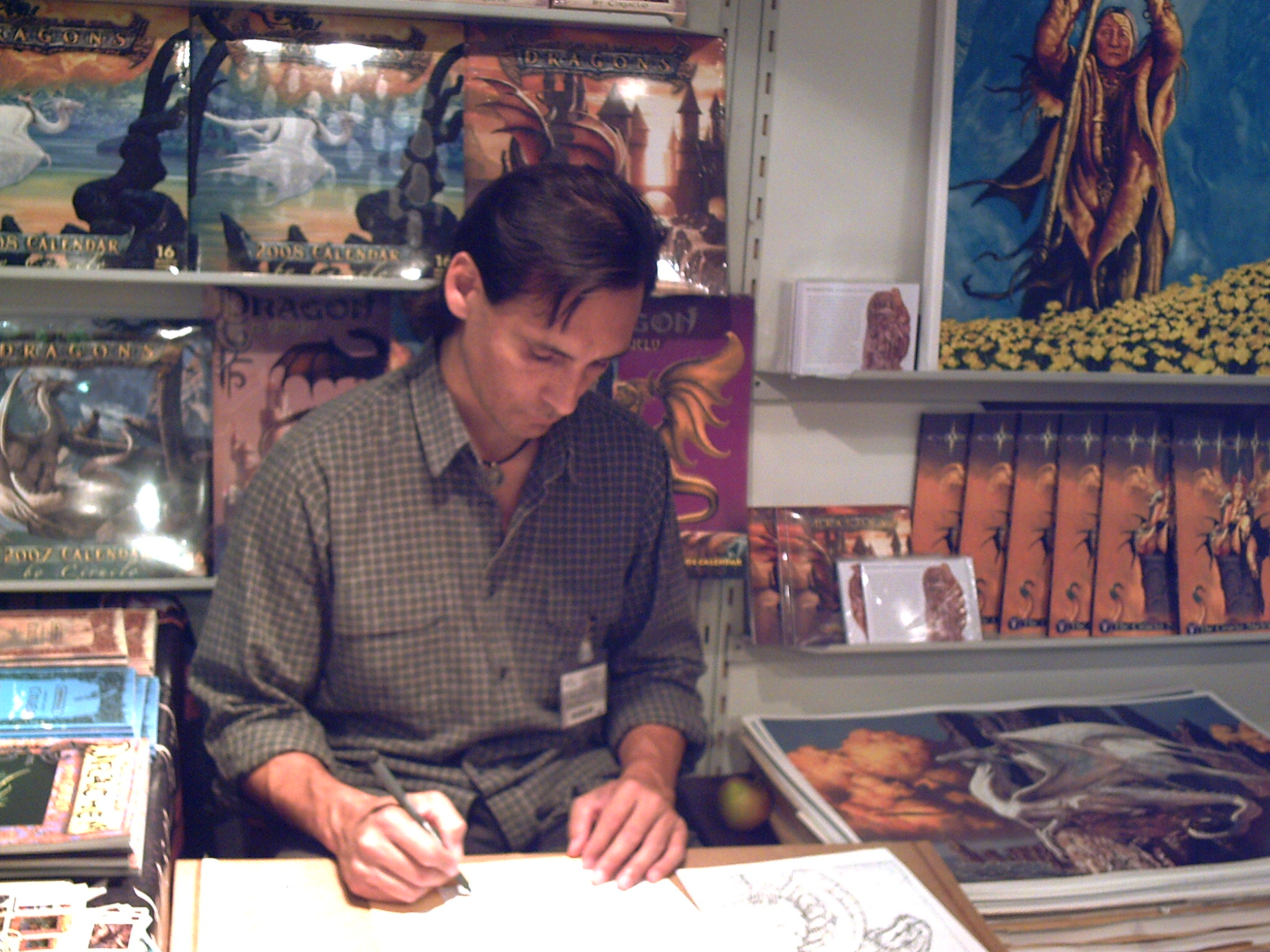 The artist Ciruelo drawing and signing at the 2007 Frankfurt International Book Fair